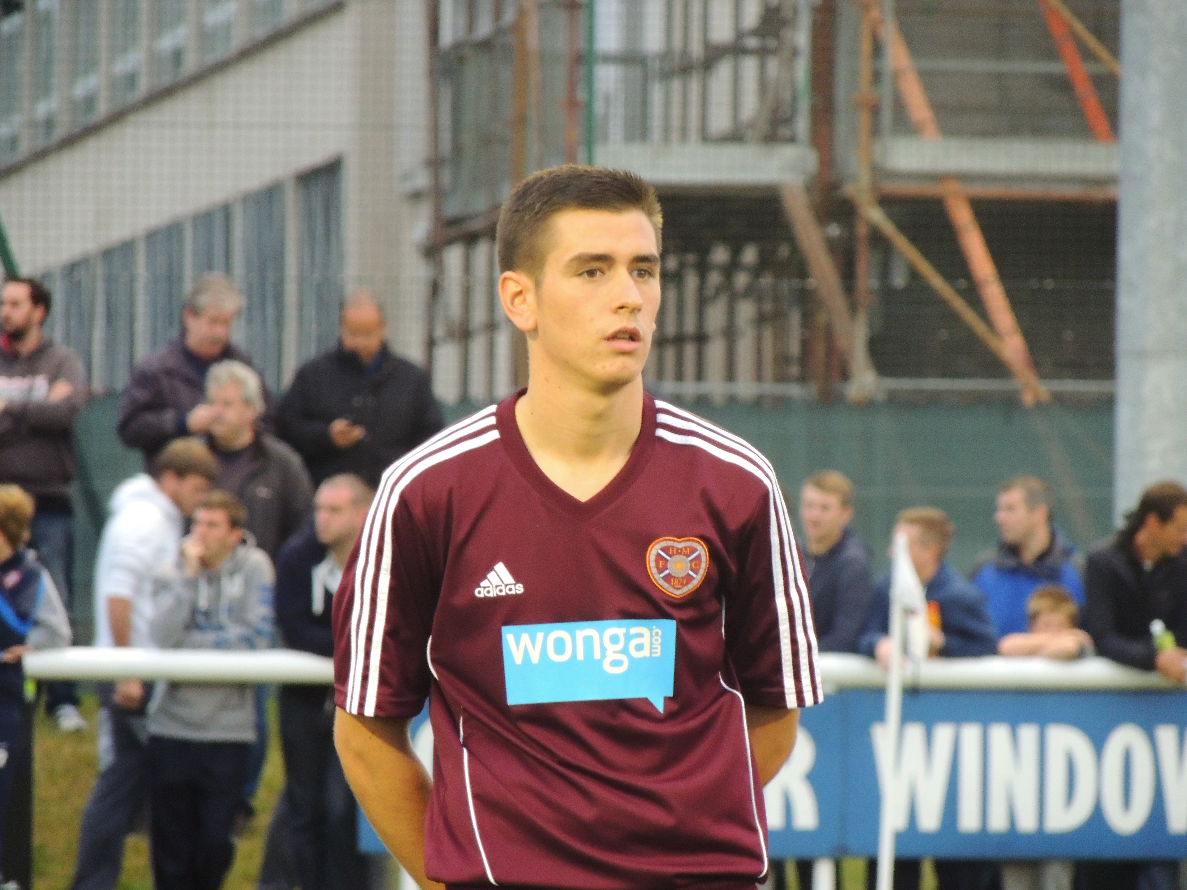 Jamie Walker against Spartans